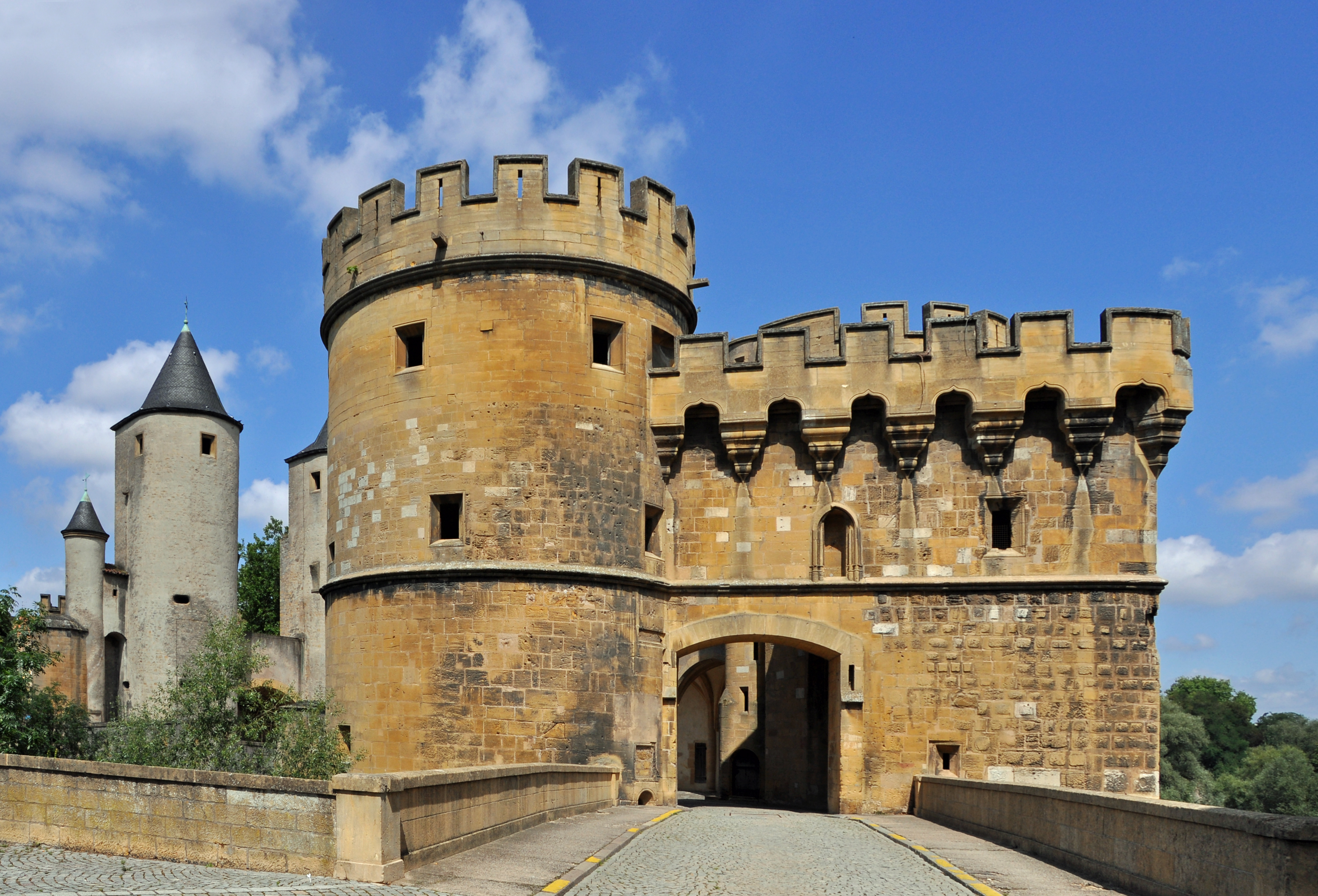 Metz (France): Porte des Allemands